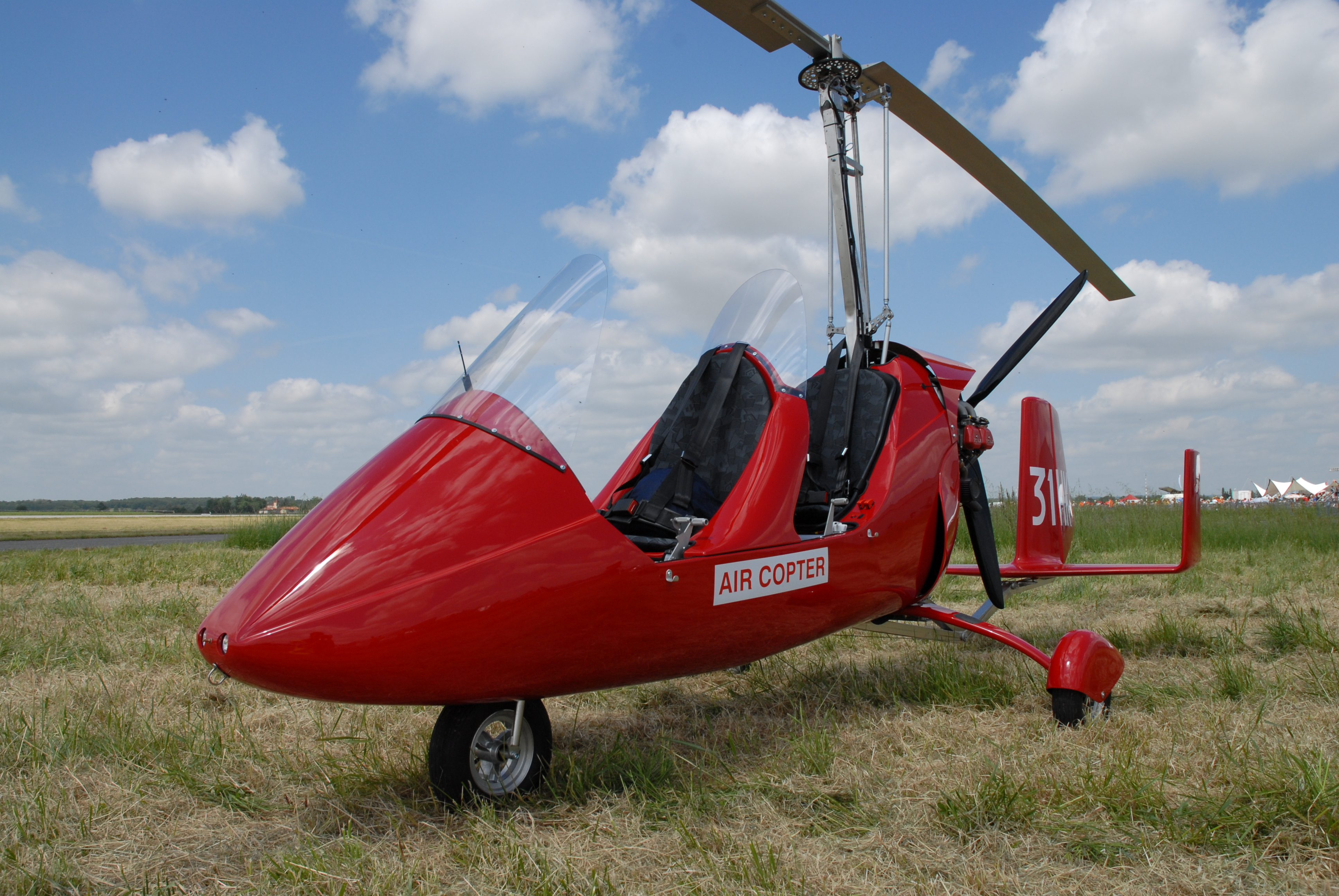 Autogyro MT03 Manufacturer HTC / Auto-Gyro (Germany) Model Autogyro MT03 Type tourism Registration ID 31HK